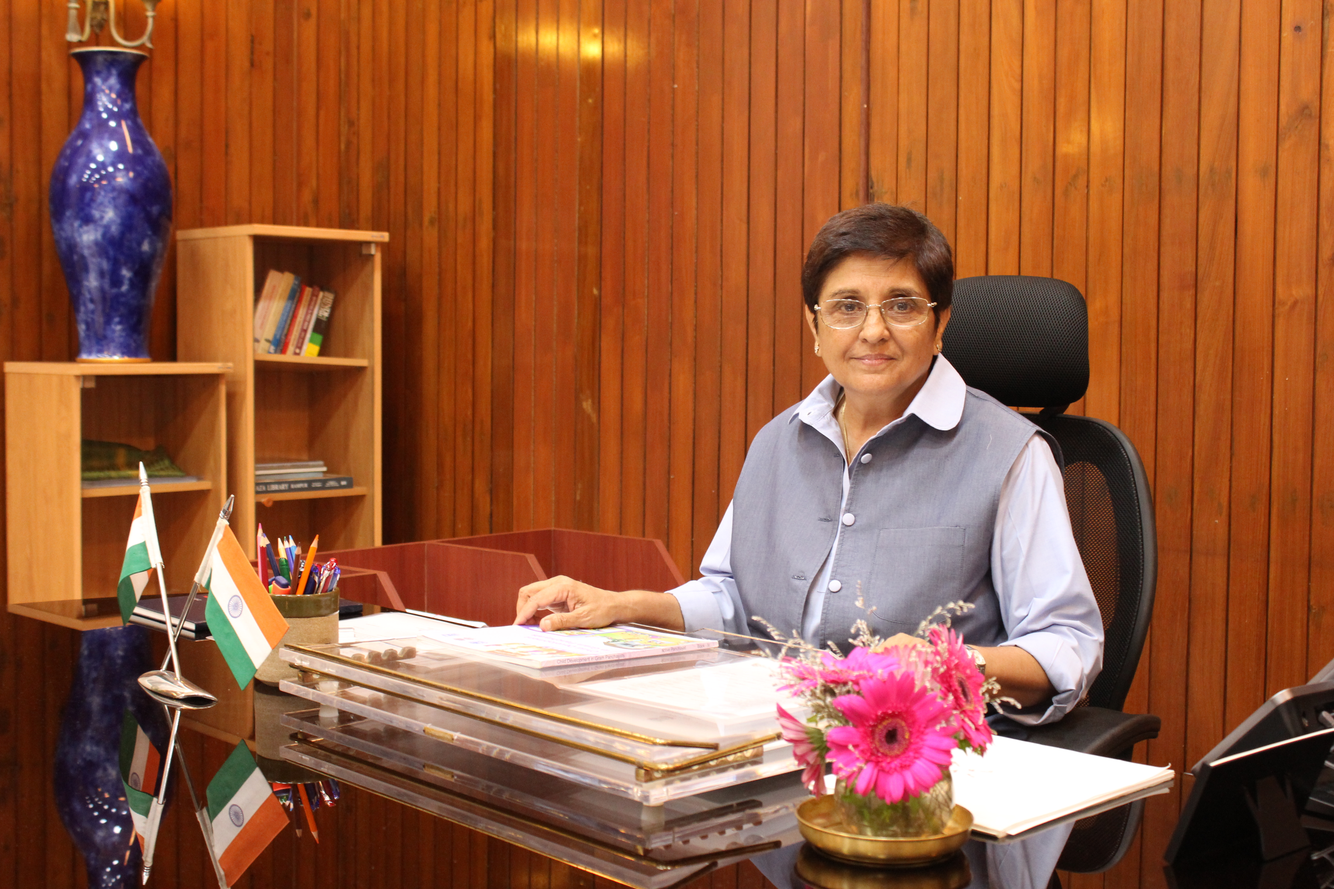 Dr. Kiran Bedi at the Lieutenant Governor's Office, Raj Nivas, Puducherry